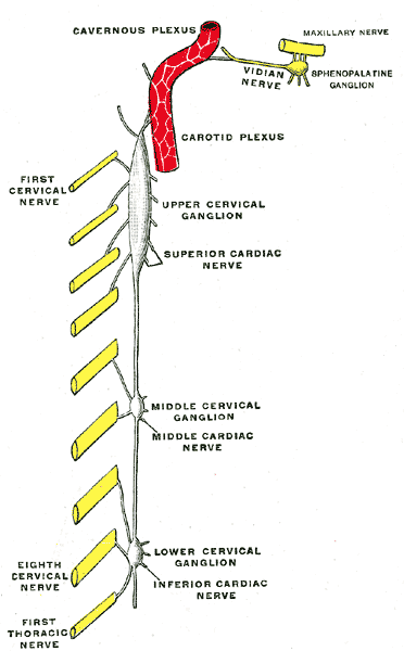 Diagram of the cervical sympathetic. (Testut.)